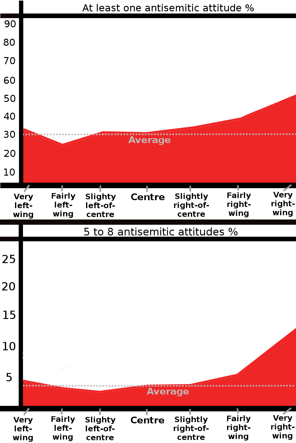 Prevalence of antisemitic attitudes among the UK population by their position on the political spectrum. The information shown is taken from the 2017 Institute for Jewish Policy Research study into antisemitism in contemporary Britain, on page 47